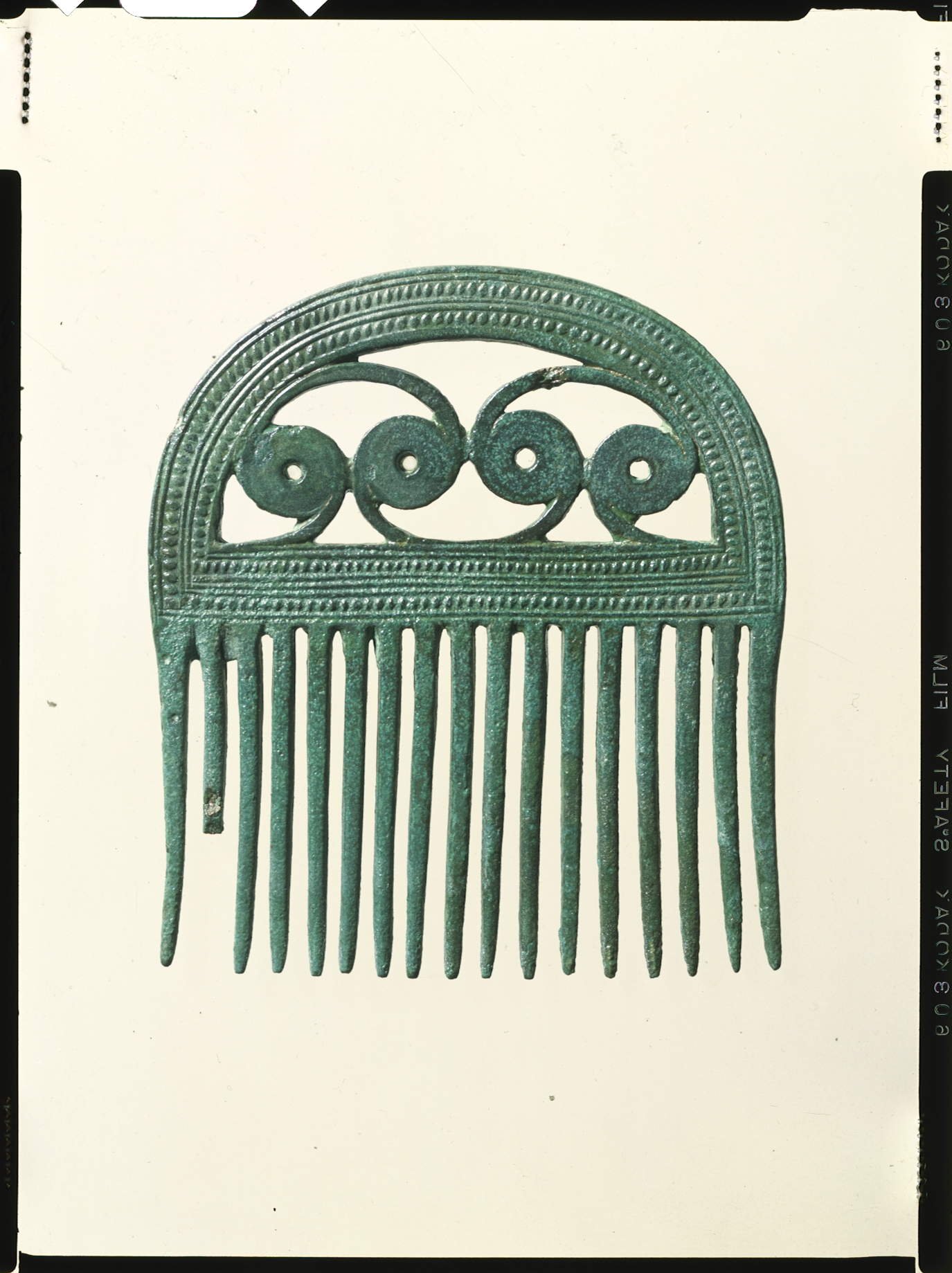 comb of bronze (B13263), Hverrehus, Denmark, older bronze age